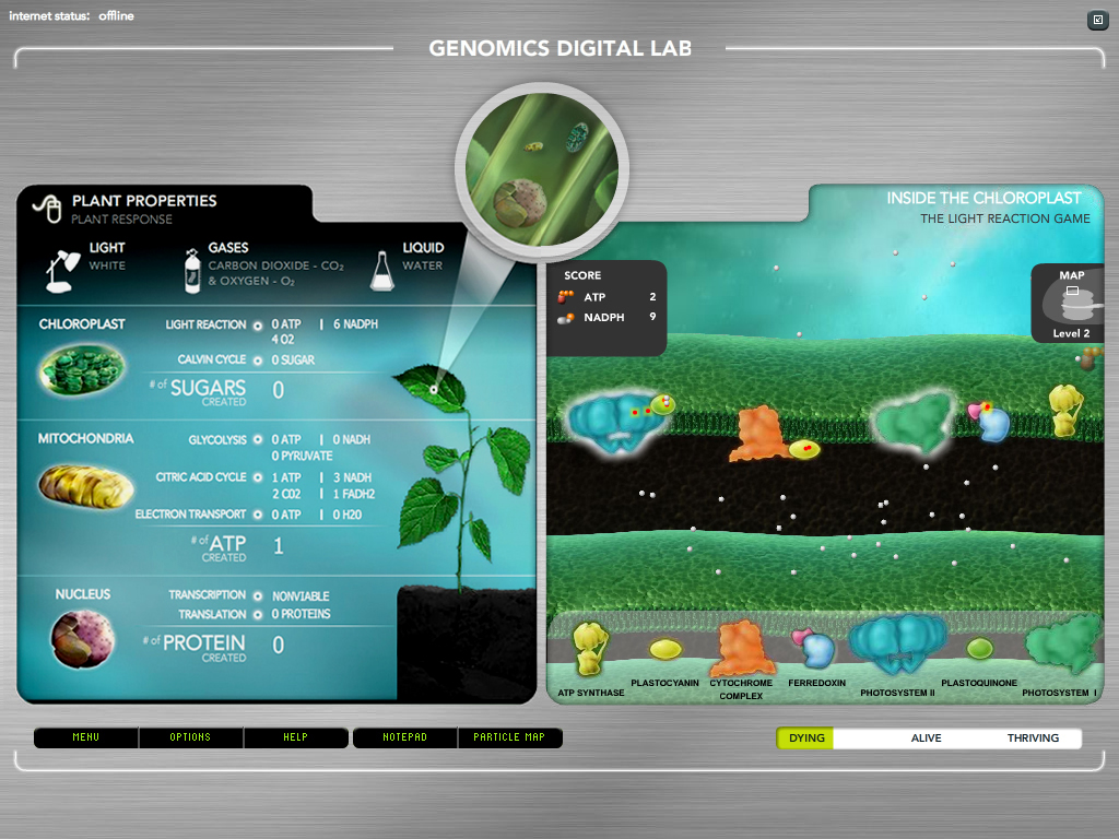 Screenshot: the light reaction game from the Genomics Digital Lab Project